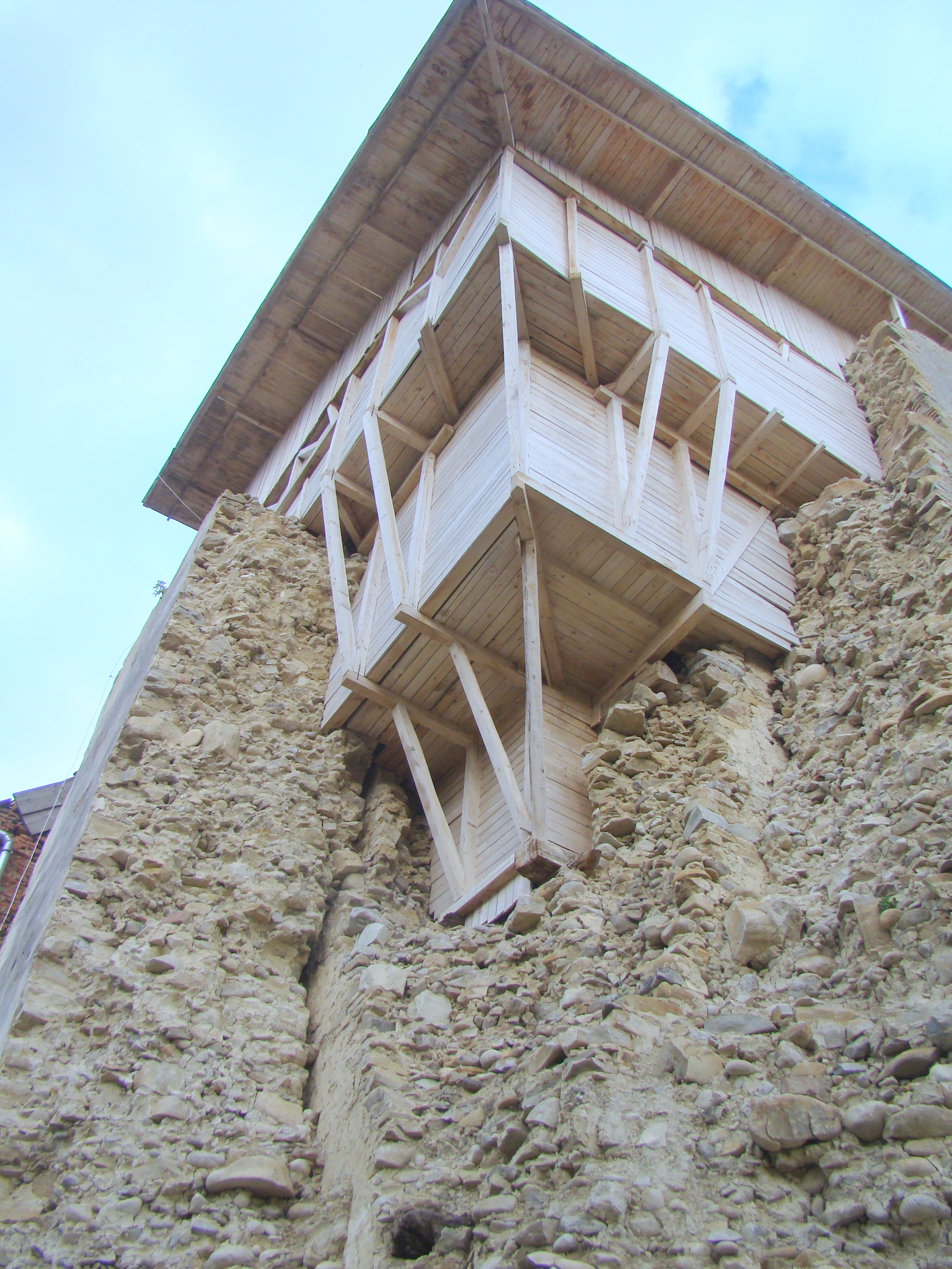 Fortified church in Roadeș, Brașov County, Romania